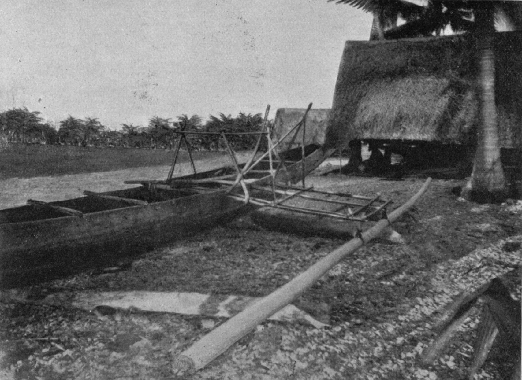 Traditional houses and outrigger canoe, Nauru